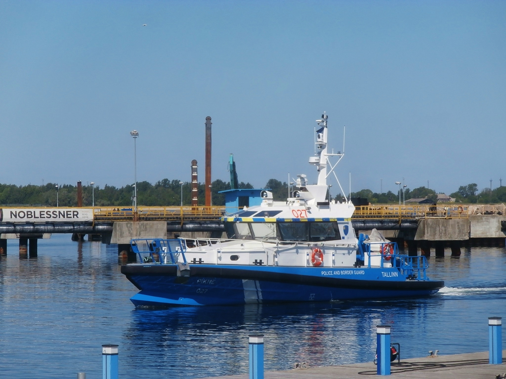 K-027 Pikne approaching pier A1 in Lennusadam Tallinn 16 June 2019